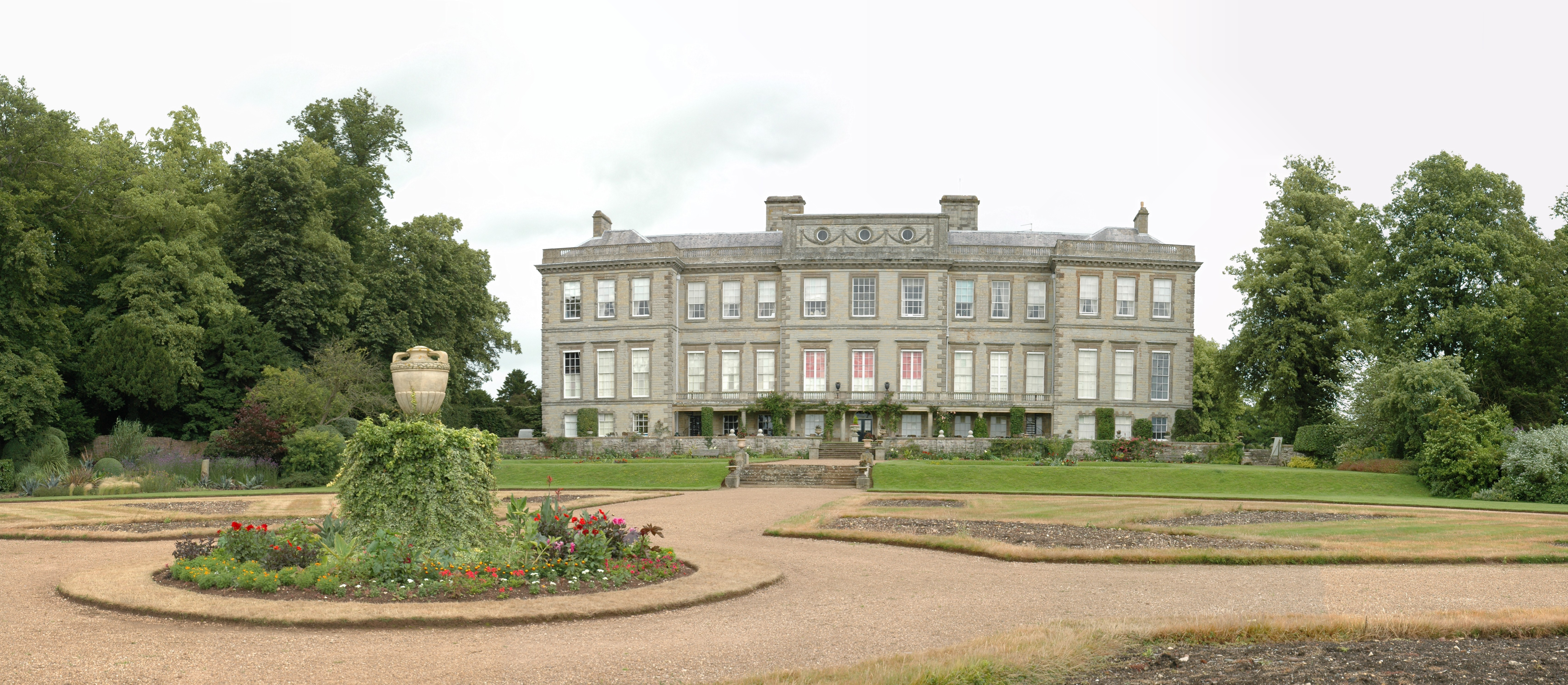 Panoramic view of Ragley Hall, UK